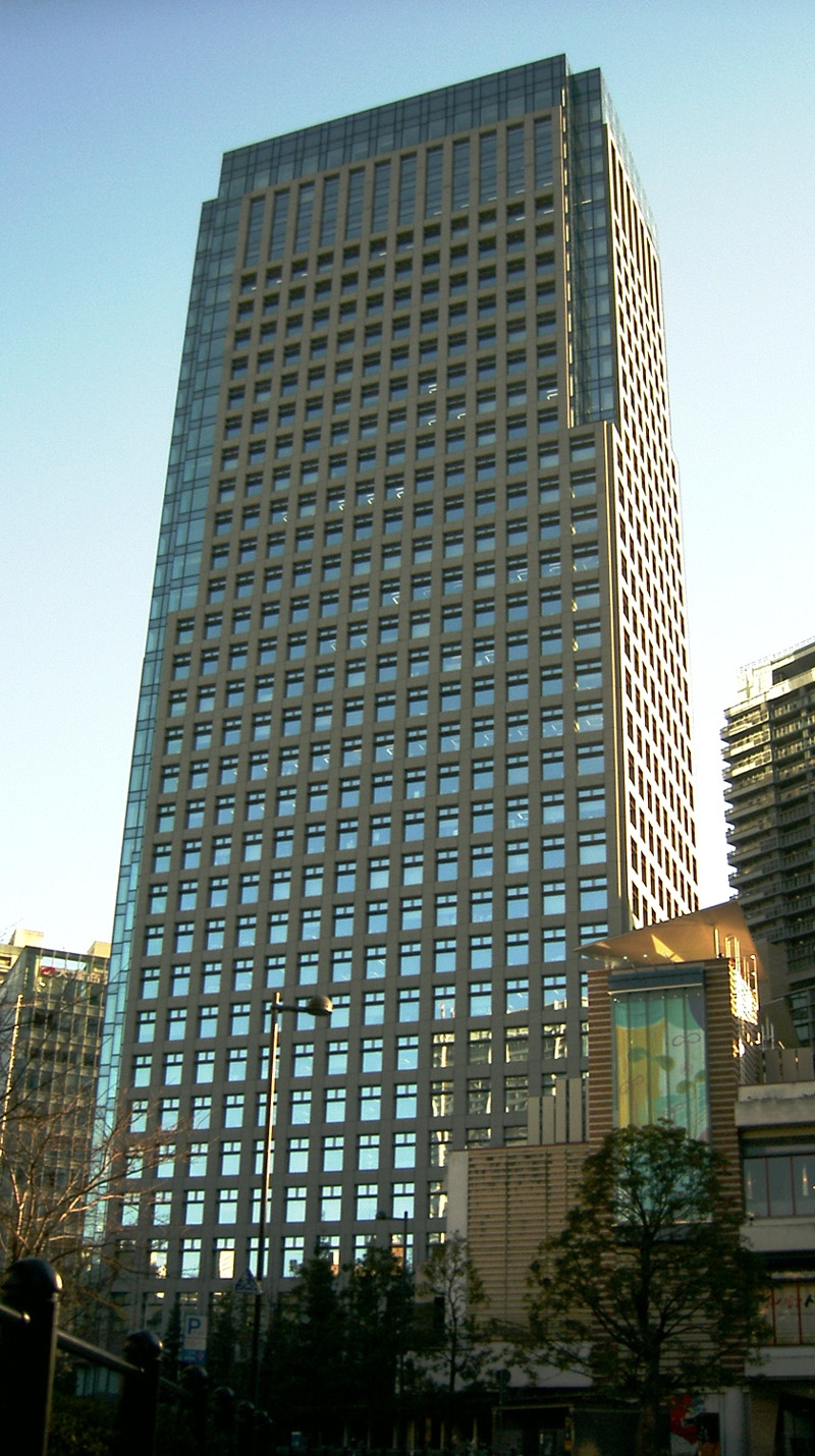 Garden_Air_Tower_Building Tokyo Japan